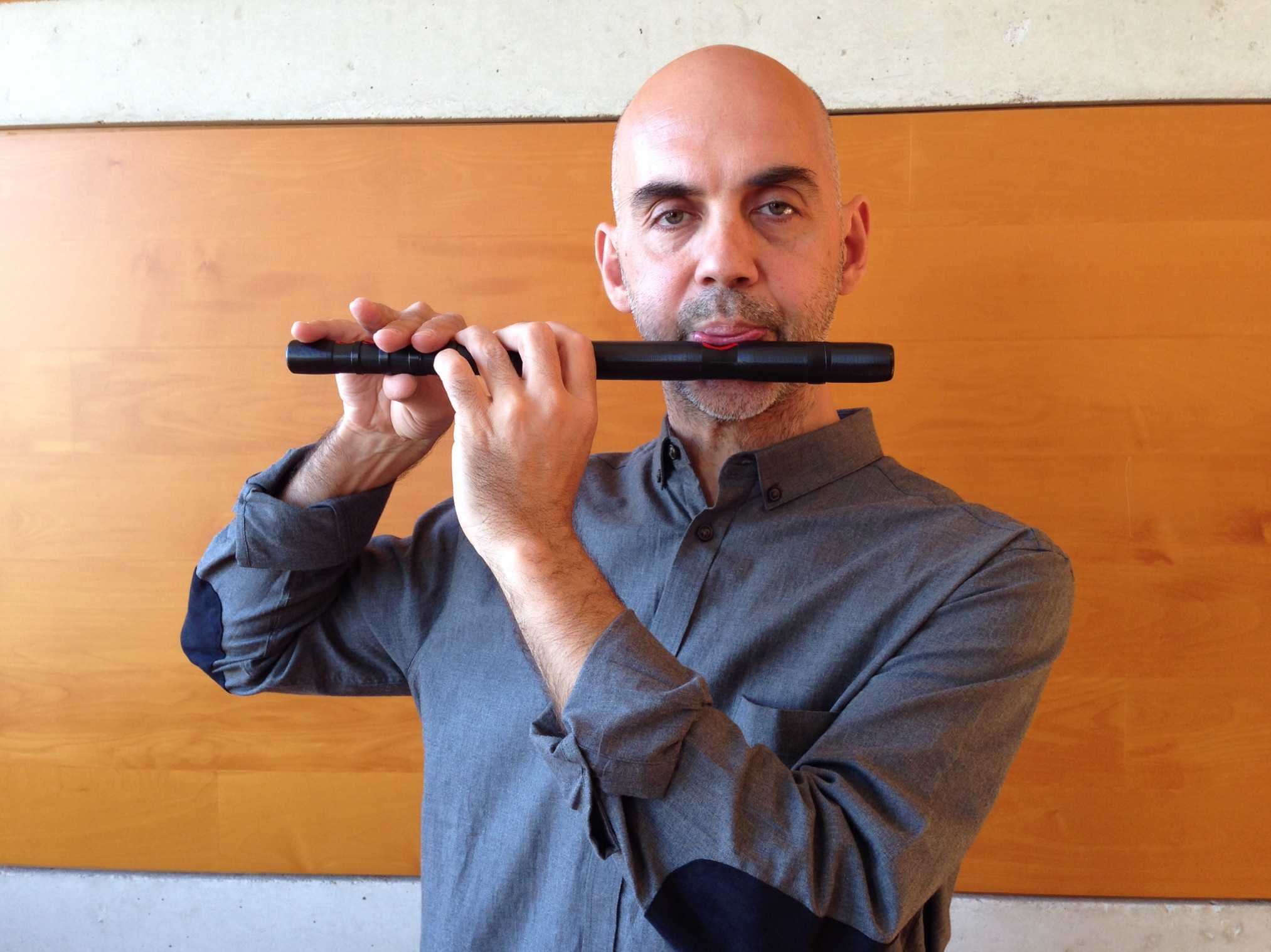 Nohkan player. Horacio Curti shows the position to play nohkan. ca: Intèrpret de nohkan. Horacio Curti ens mostra la posició per tocar el nohkan.